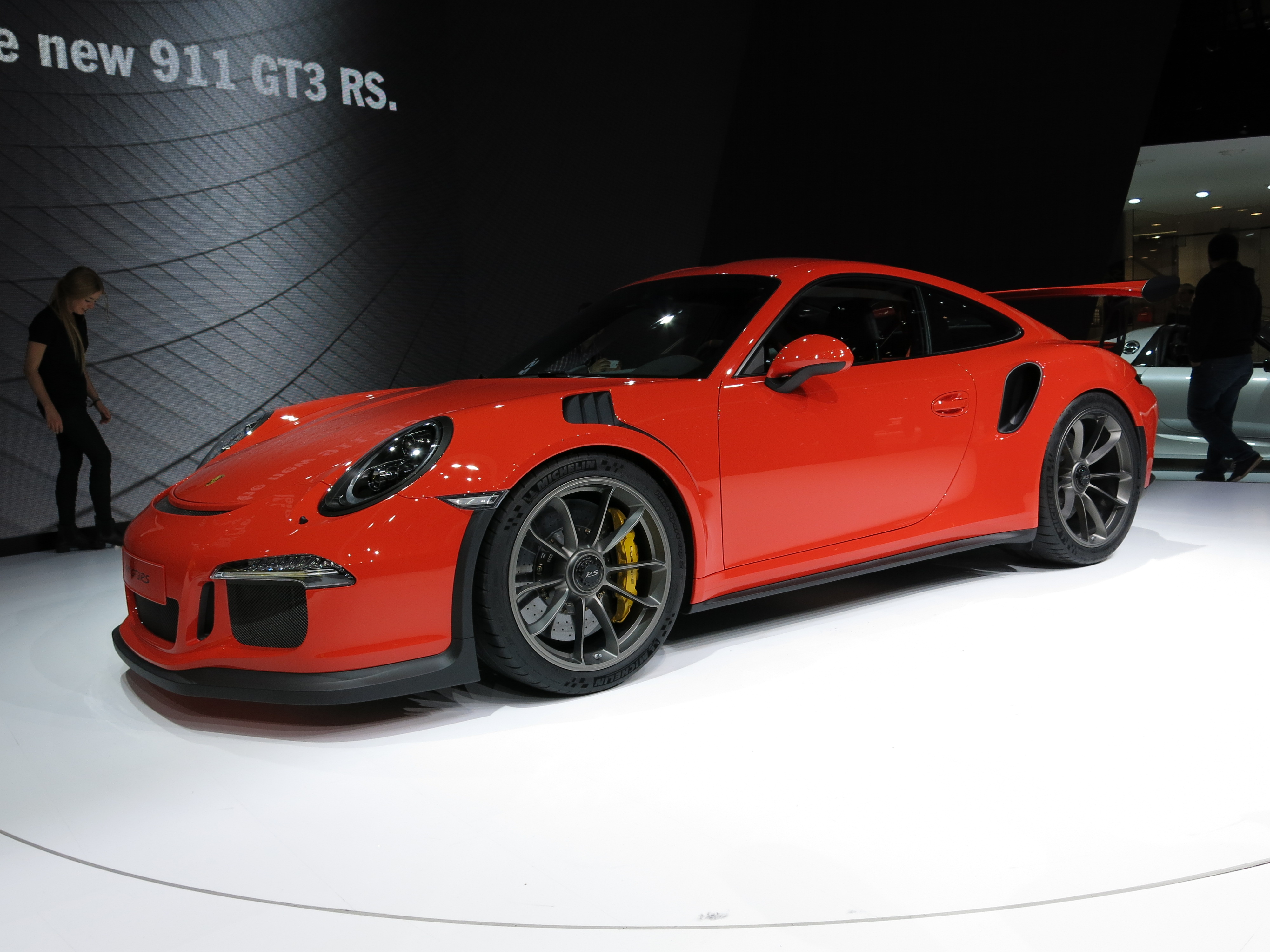 Geneva Motor Show 2015 (photo taken on the first press day)